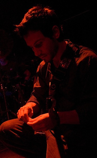 This new photo replaced one that I had put there previously.